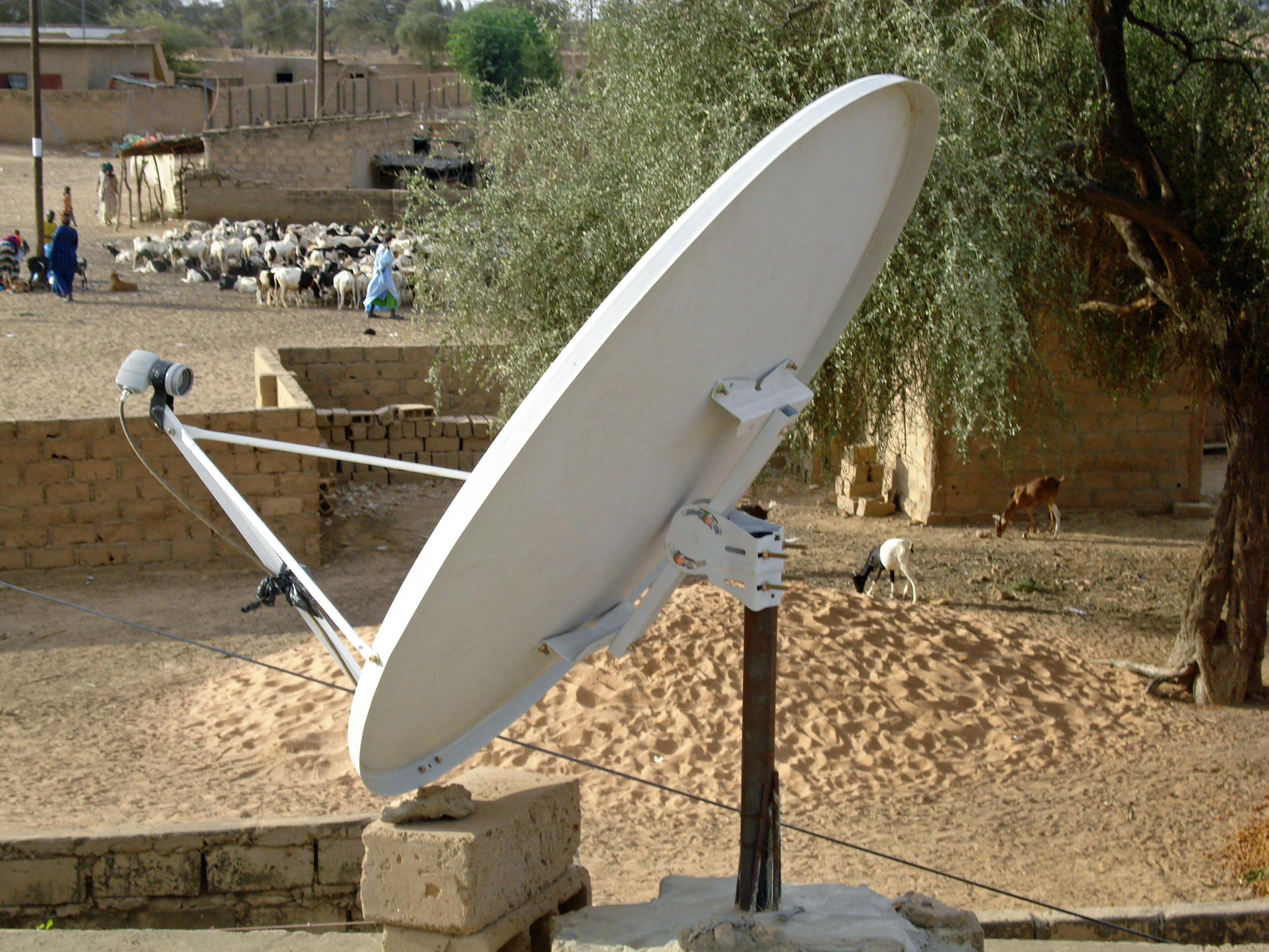 text